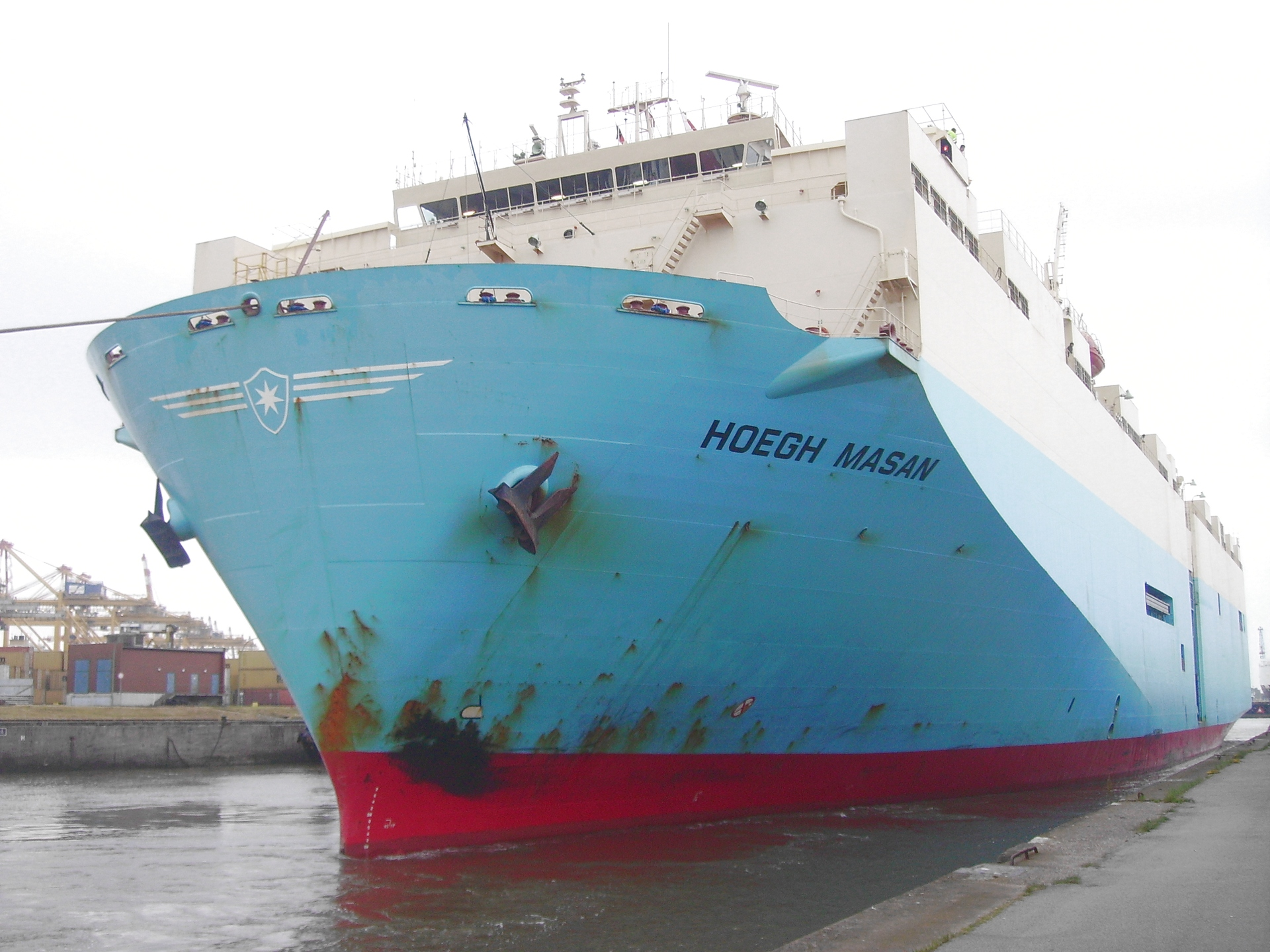 The car carrier Hoegh Masan leaving the Northern sluice in Bremerhaven IMO Number: 9166704 MMSI Number: 564755000 Callsign: S6HK Length: 180 m Beam: 32 m